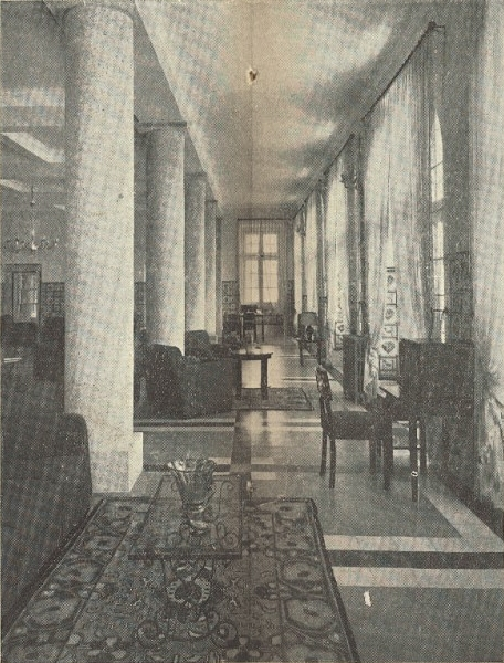 A living room on the South wing of the Sanatório das Penhas da Saúde (Penhas da Saúde Sanatorium), near the city of Covilhã, in Portugal. This image was published in the Gazeta dos Caminhos de Ferro magazine No. 1398, of 16th March 1946, and scanned by the Hemeroteca Municipal de Lisboa.